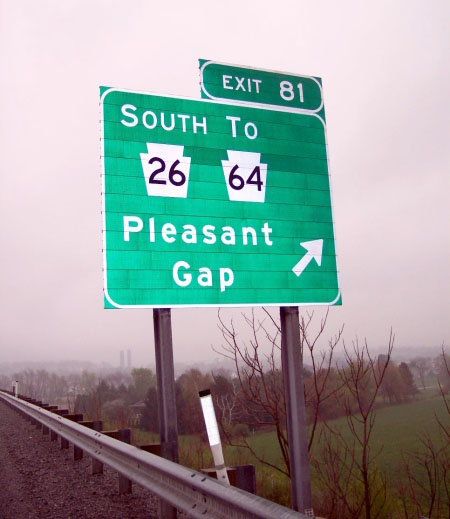 A sign on Interstate 99 and U.S. Route 220 for Exit 81.